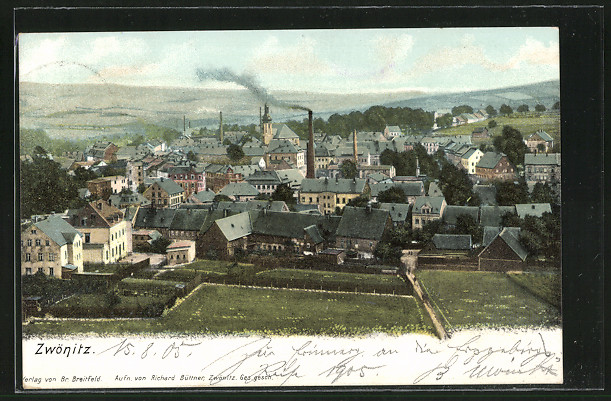 Zwoenitz 1905